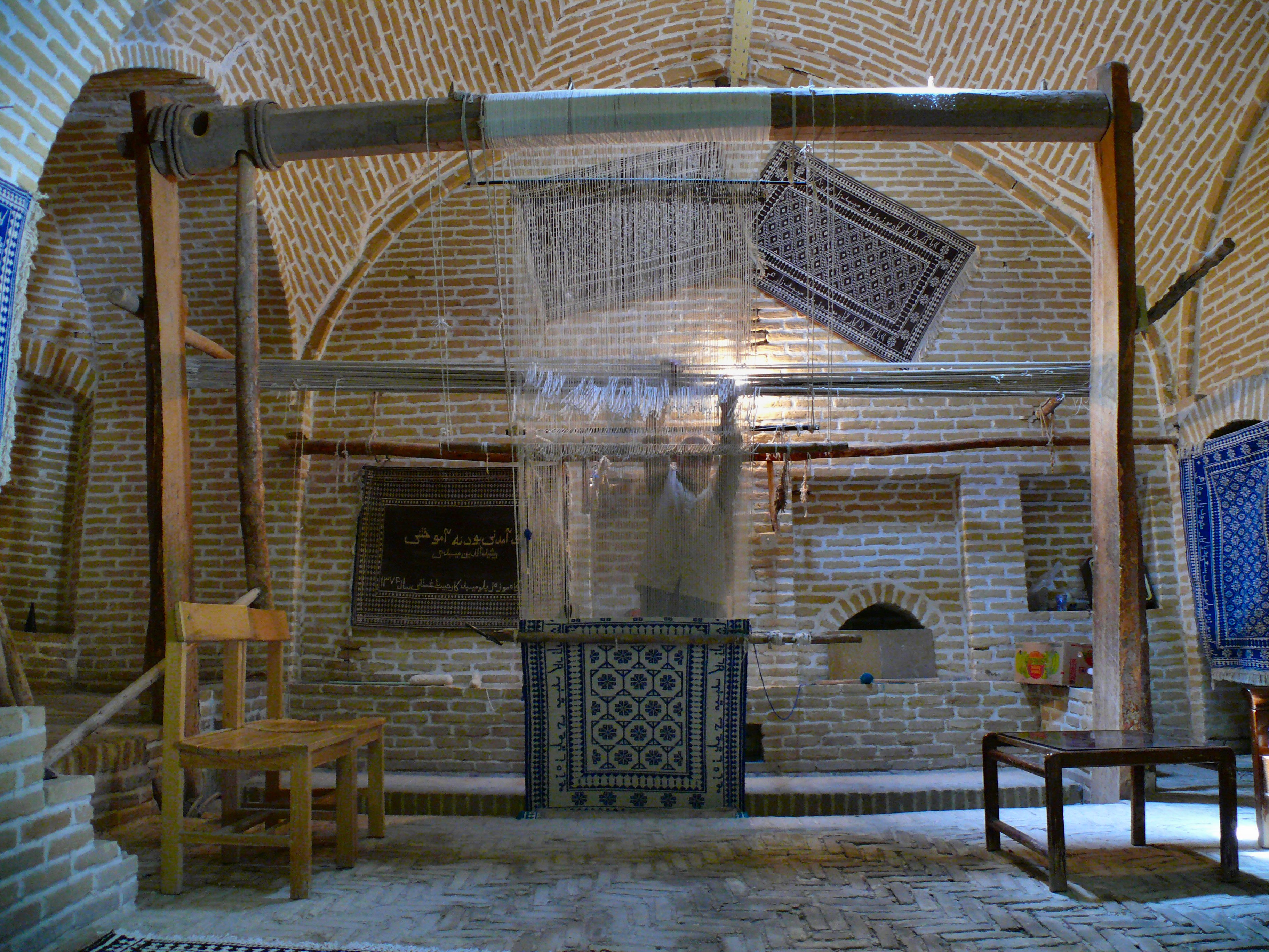 Man weaving a carpet in an old restored caravanserail at Meybod. Taken at Meybod, Province of Yazd, Iran, April 2009